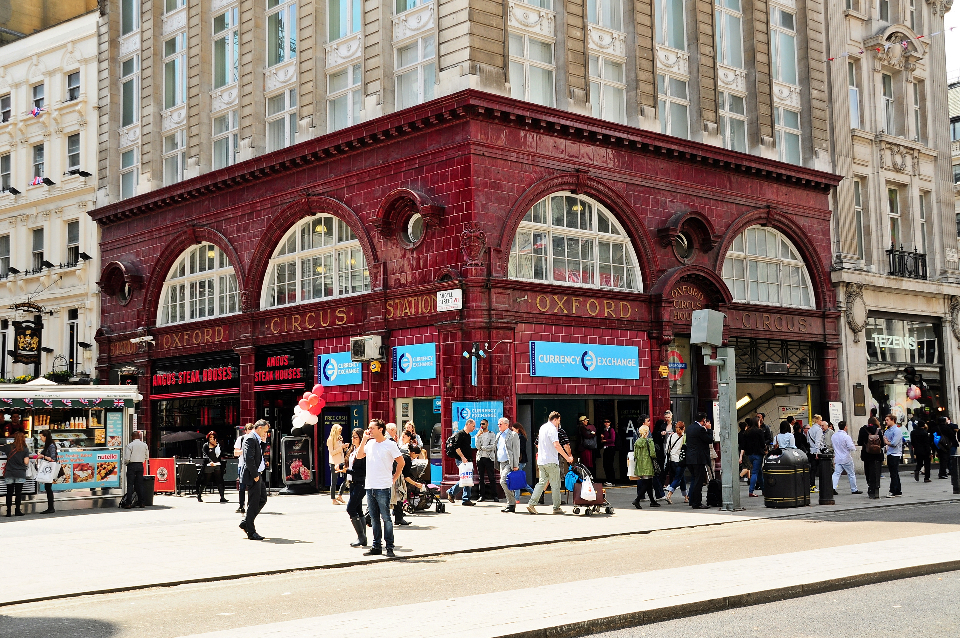 Oxford Circus tube station building, London